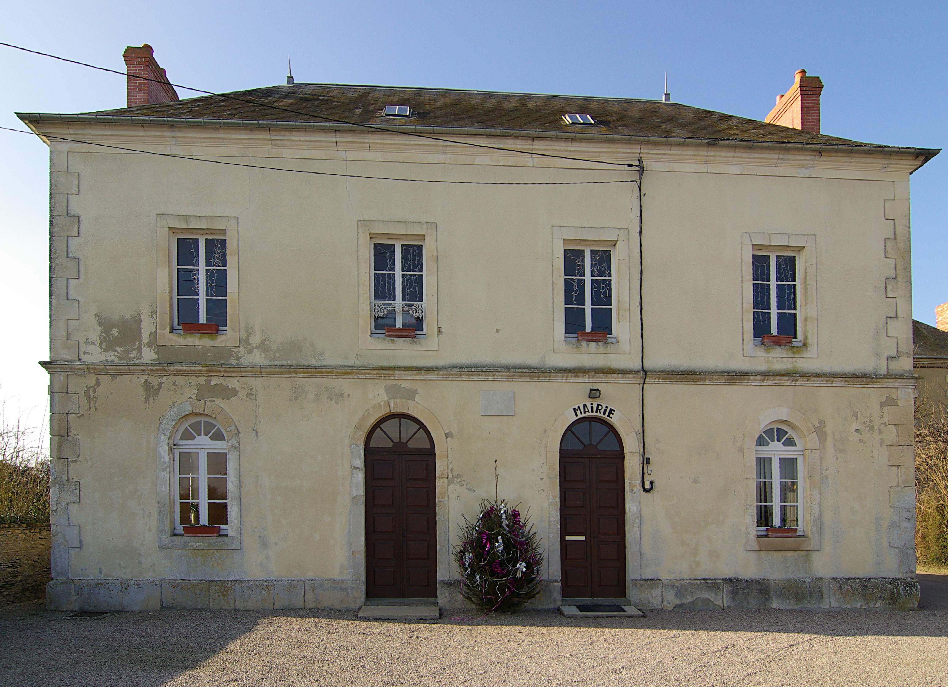 The Town hall in Bazoches-au-Houlme.